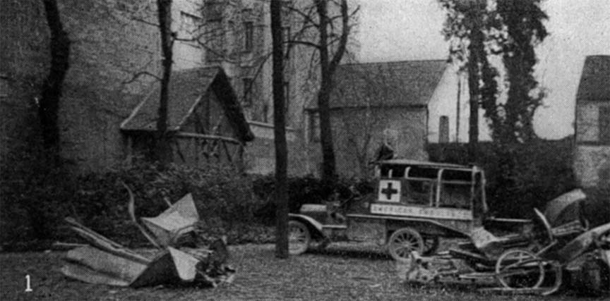 World War I in Reims-Verdon sector, France. Original caption: “The remains of two ambulances, destroyed by German shell-fire. They were brought into Paris to encourage the new arrivals.”